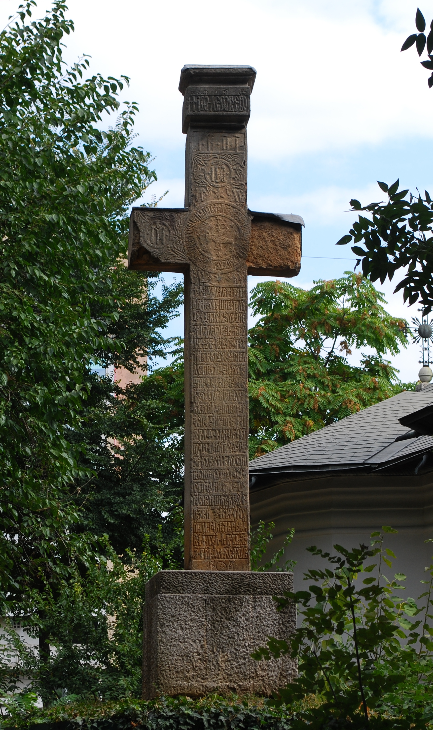 Leon Vodă's cross in the yard of the Slobozia church in Bucharest, RomaniaRomână: Crucea lui Leon Vodă în curtea bisericii Slobozia din Bucureşti, România